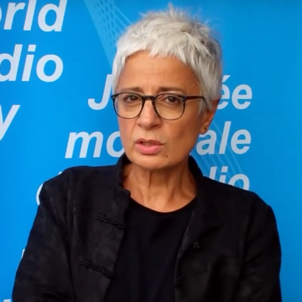 Liliane Landor (born c.1956) is a Lebanese-born British journalist and broadcasting executive who worked for the BBC from 1989 to mid-2016